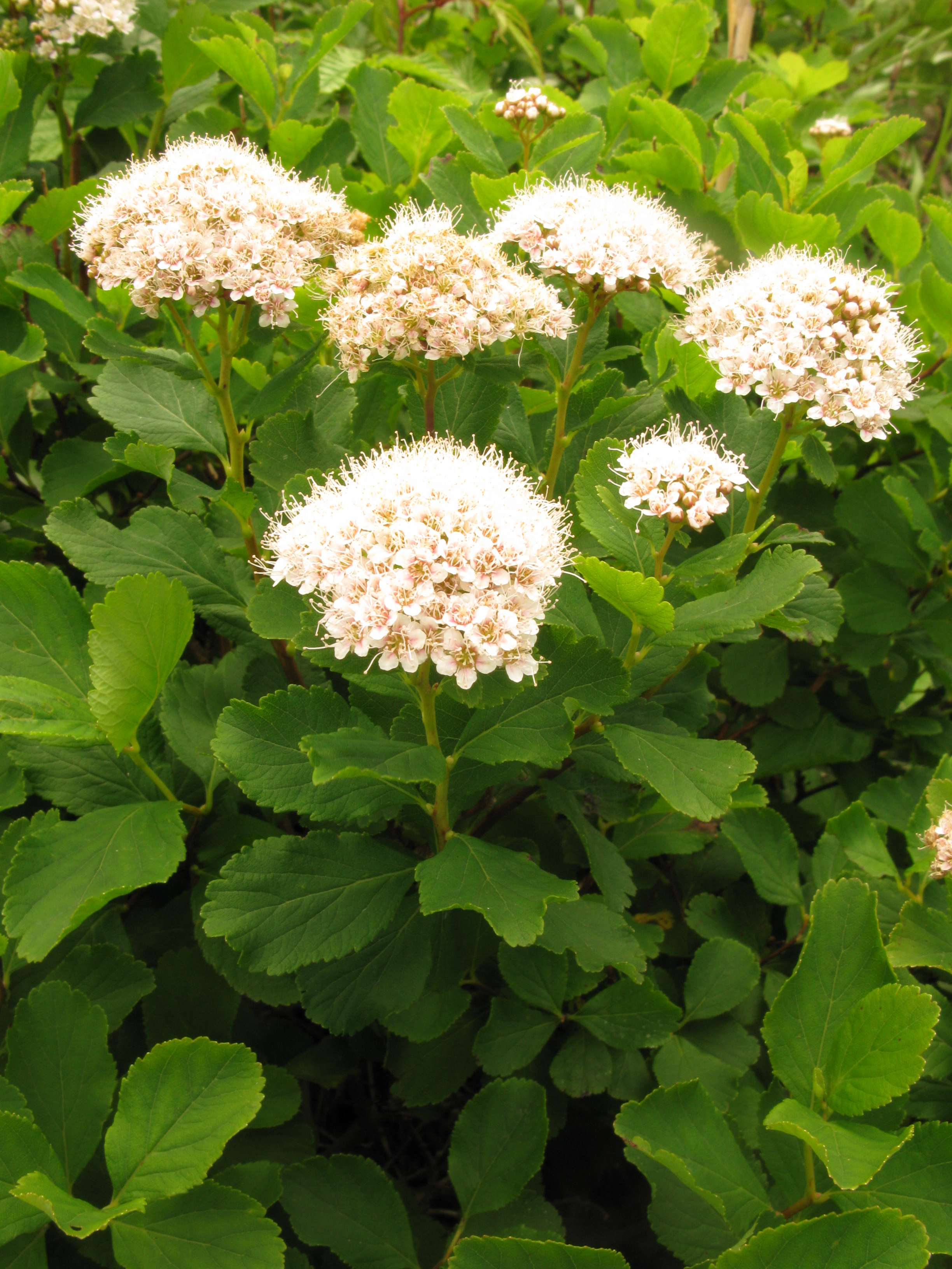 Spiraea betulifolia ,Aizu area, Fukushima pref., Japan